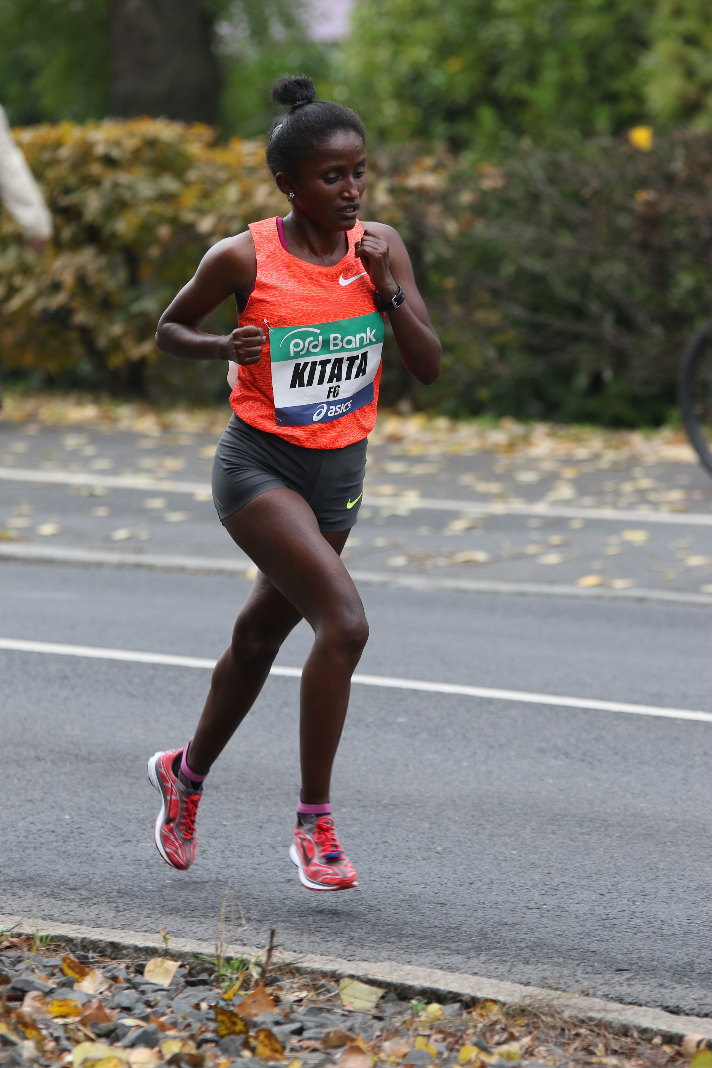 Frankfurt Marathon 2015 Old Nidda Bridge, Frankfurt-Nied